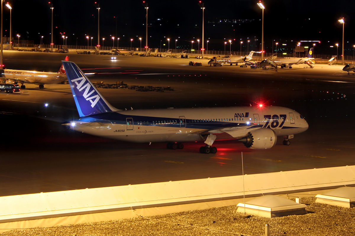 Munich (EDDM/MUC) Airport